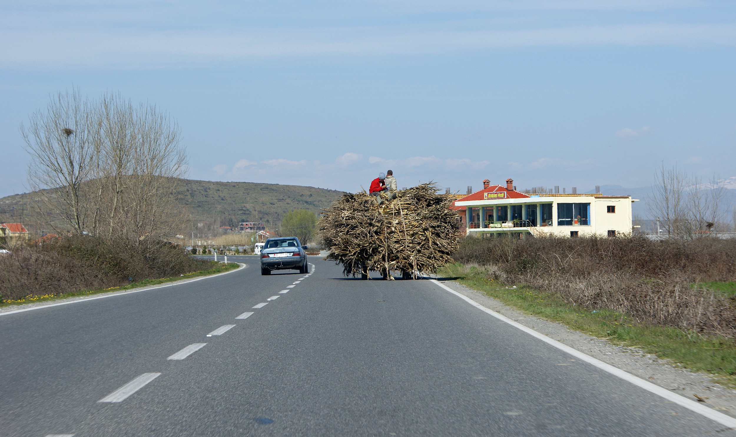 Albania – on the road from Lezha to Shkodra